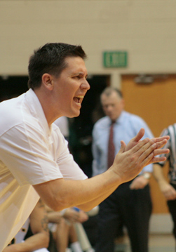 University of San Francisco basketball coach Rex Walters